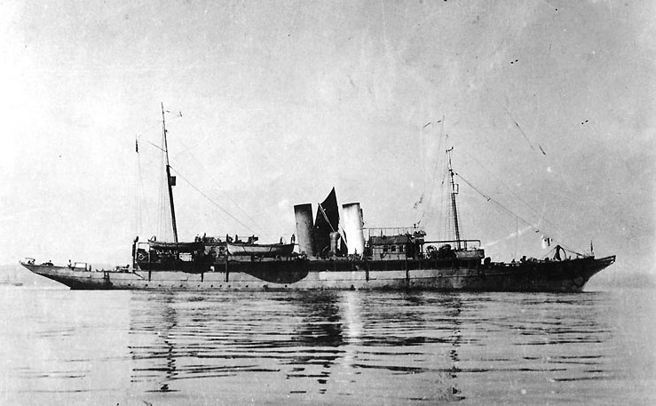 Photo #: NH 60294 USS Noma (SP-131) Photographed circa 1917-1918, probably in French waters, with the sails of another vessel visible in the background, between her smokestacks. She was commanded at the time by Lieutenant Commander Lamar R. Leahy, USN.